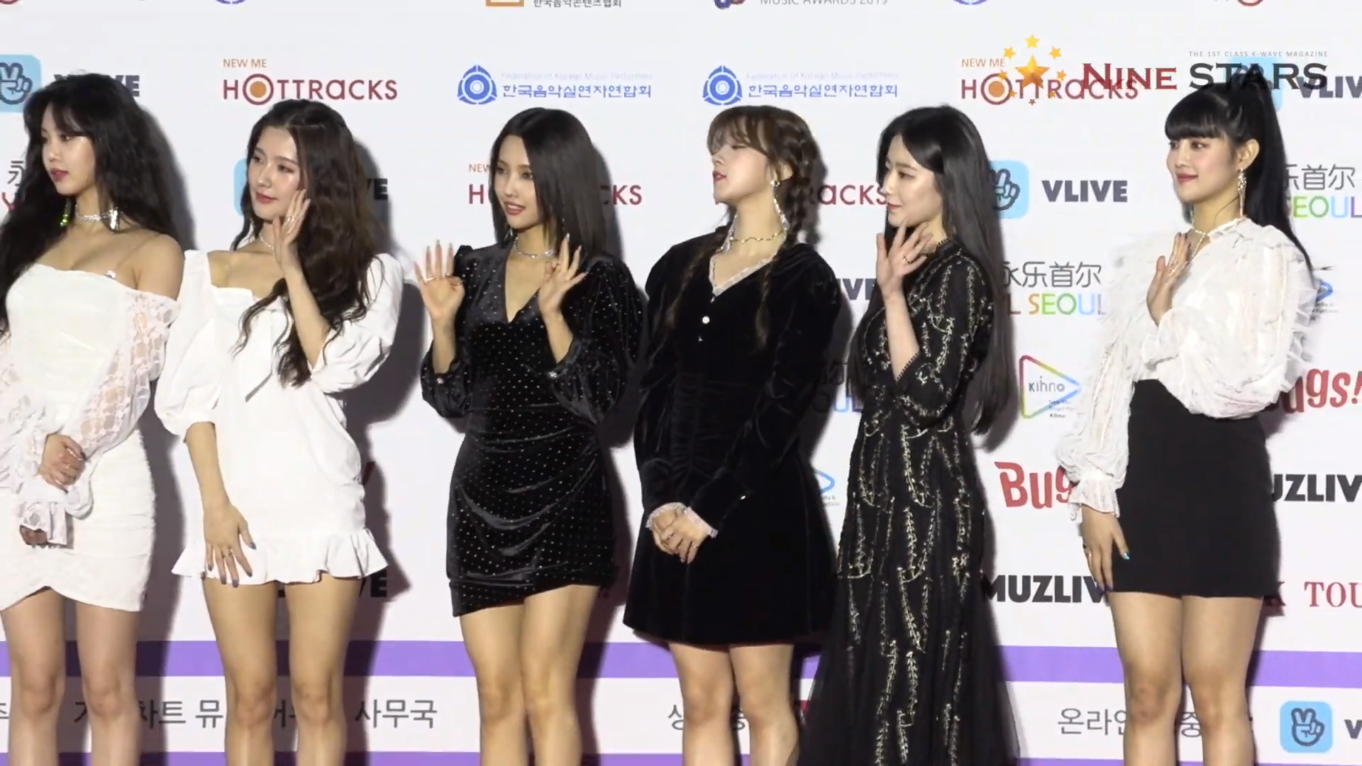 (G)I-DLE at Gaon Music Awards red carpet on January 8, 2020.